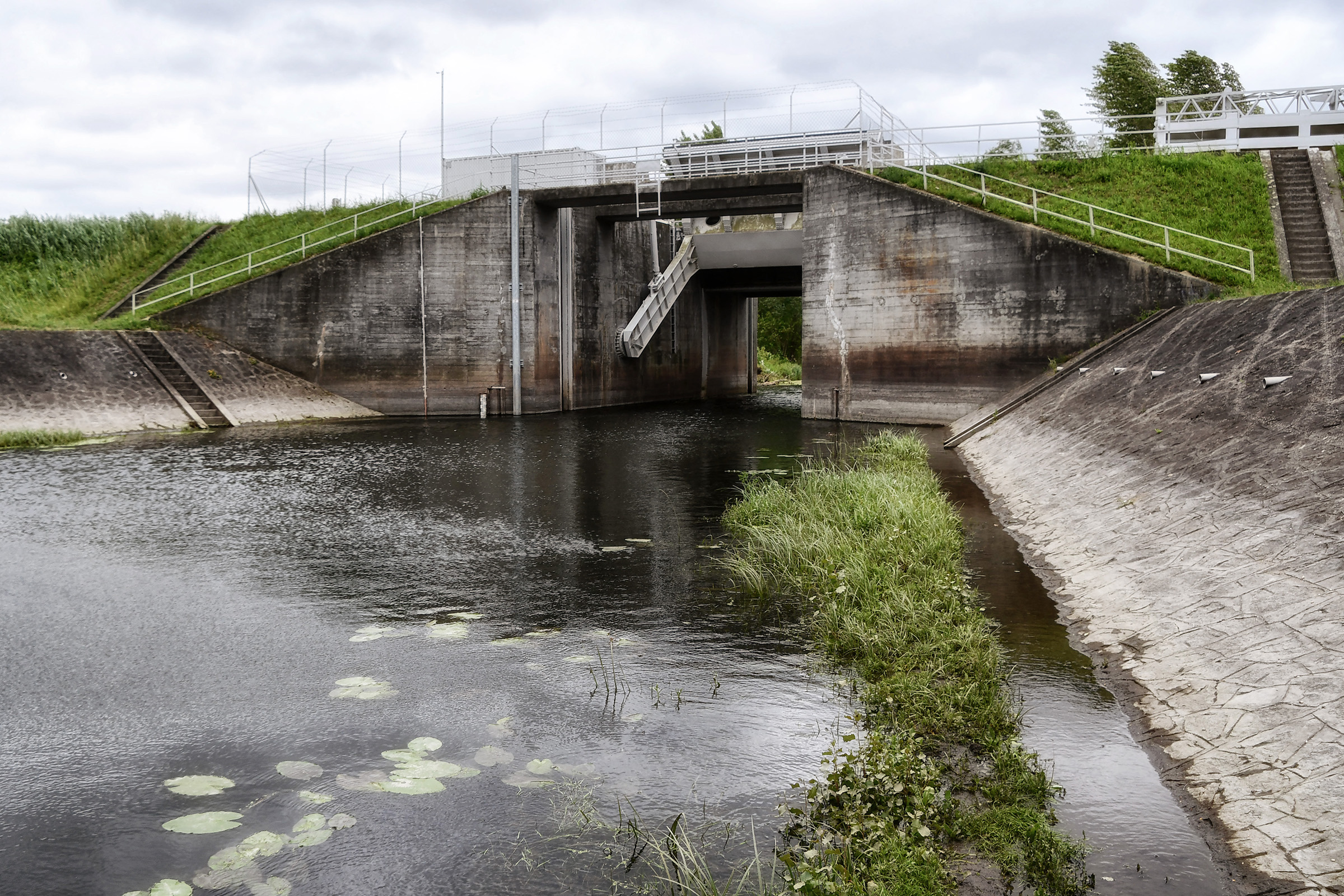 Flood-gate of the Rábca at Abda, Hungary